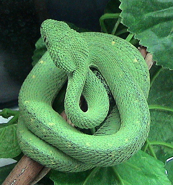 Viper Atheris chlorechis